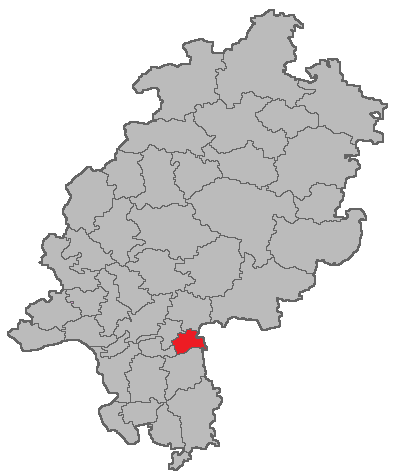 Map of the district court Seligenstadt in Hesse